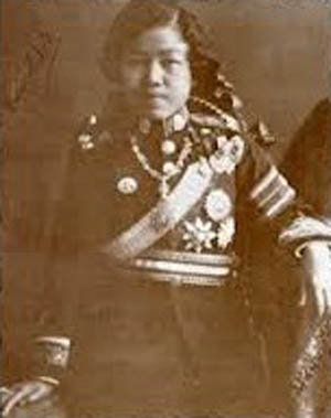 Indrasakdi Sachi wearing military dress